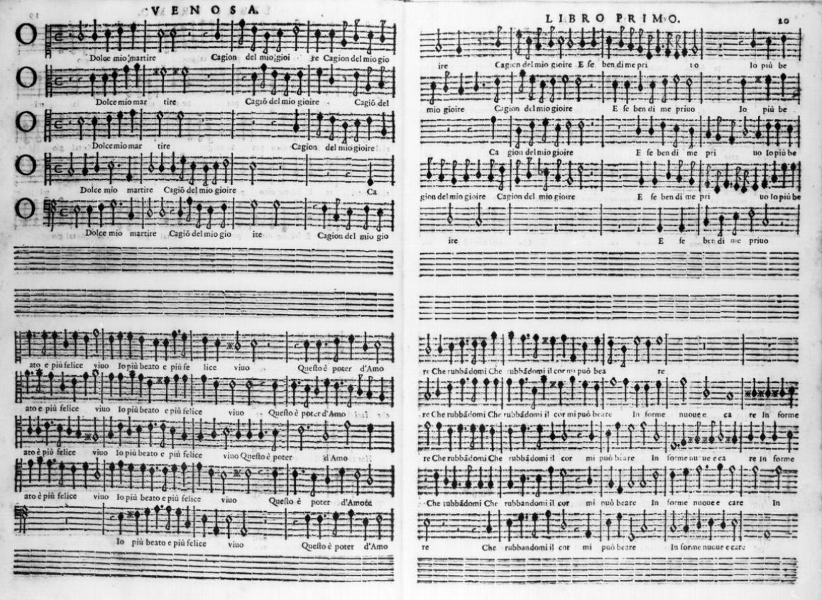 Gesualdo - O dolce mio martire, ed.1613